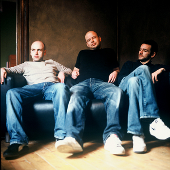 The Belgian hiphop crew 't Hof van Commerce.